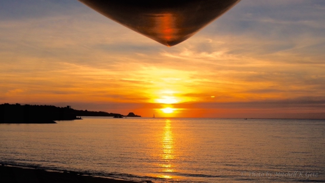 Blue House Beach, Nakadomari